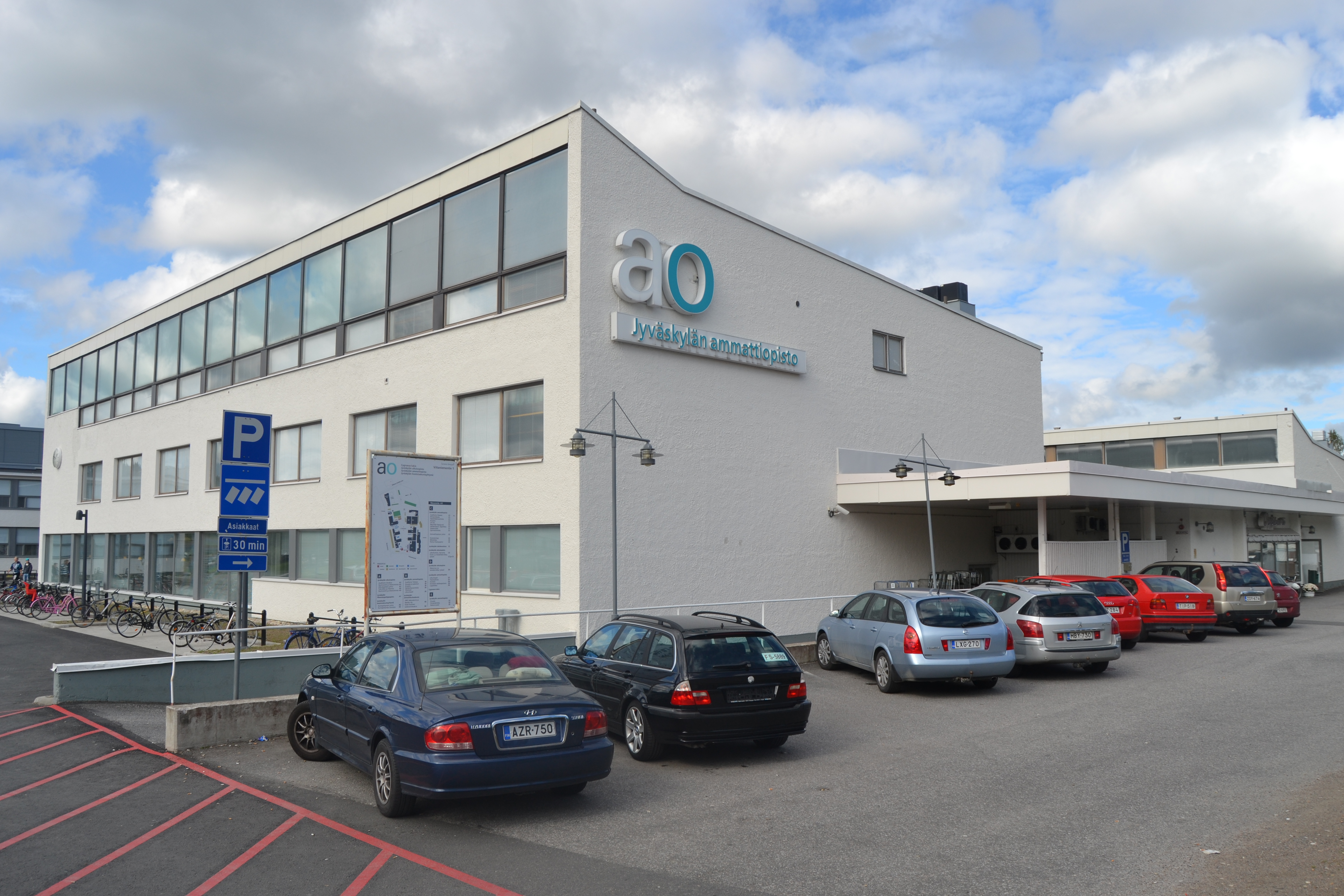 Jyväskylä vocational school, Viitaniemi campus in Finland